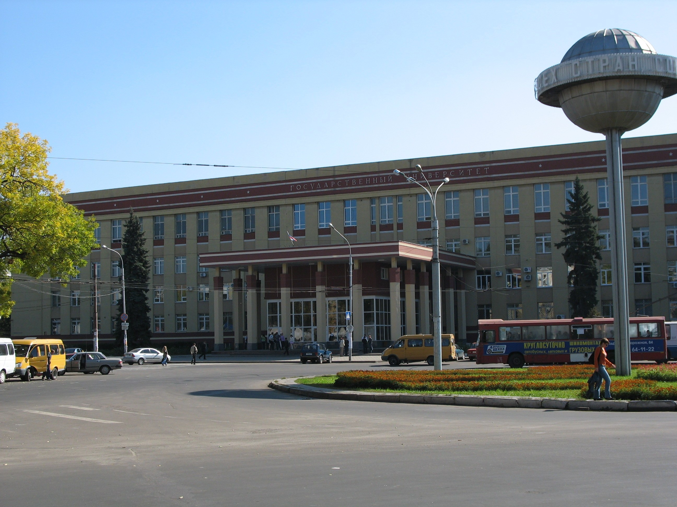 Main building VSU 2006